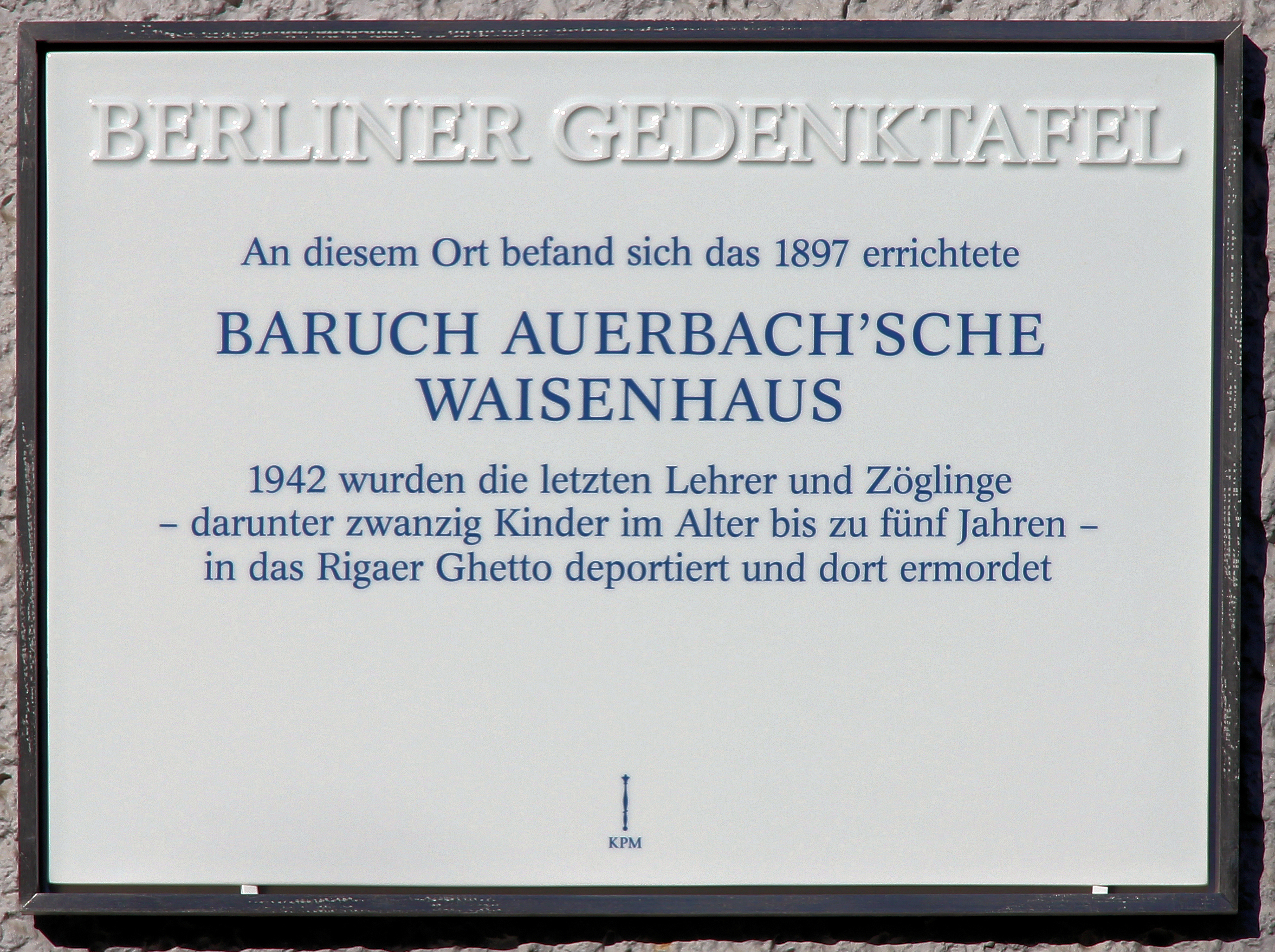 Berlin memorial plaque, Baruch Auerbach'sche Waisenhaus, Schönhauser Allee 162, Berlin-Prenzlauer Berg, Germany Koordinate:52°32′9″N 13°24′43″E / 52.53583°N 13.41194°E